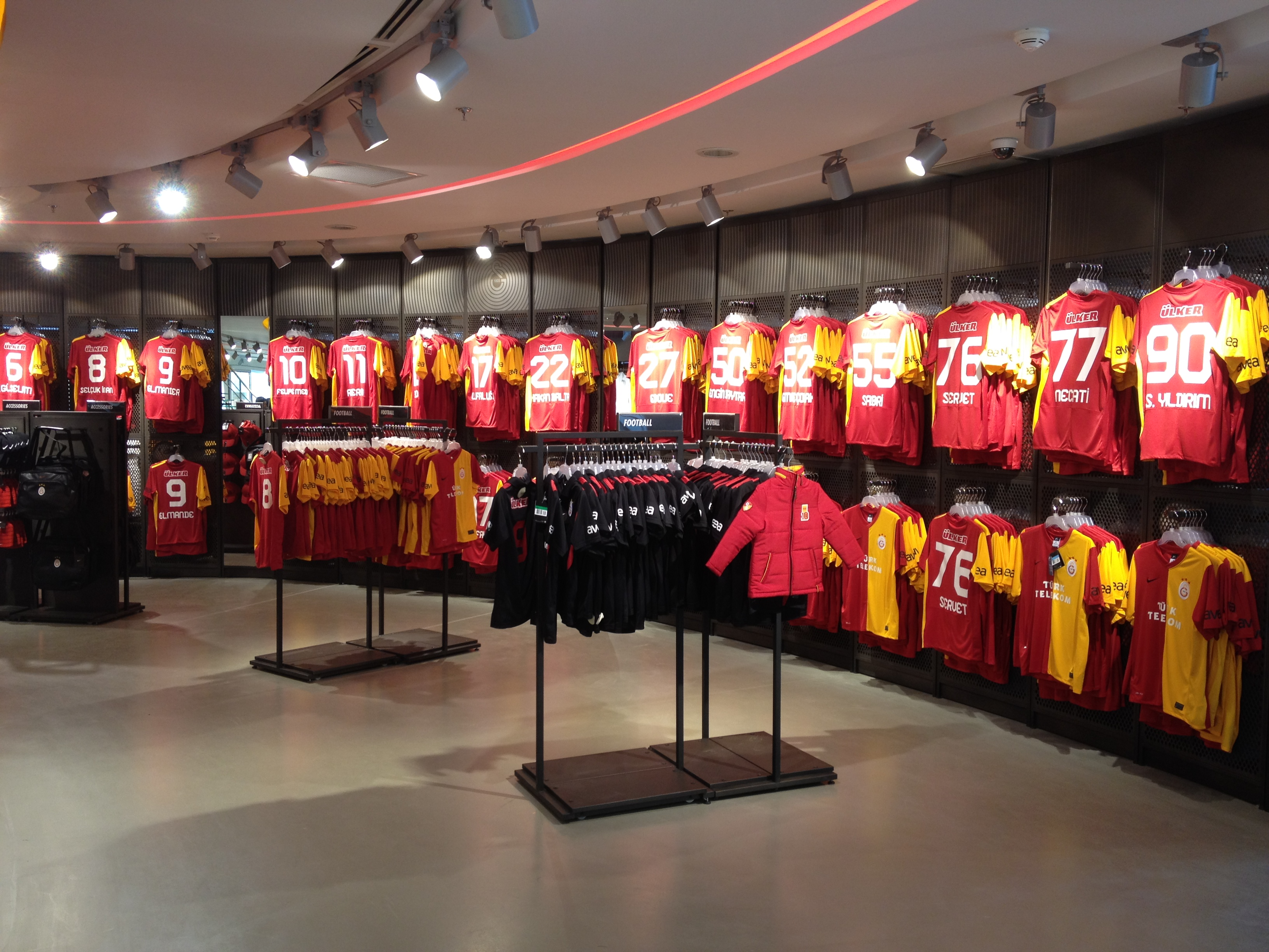 Galatasaray Store forma bölümü